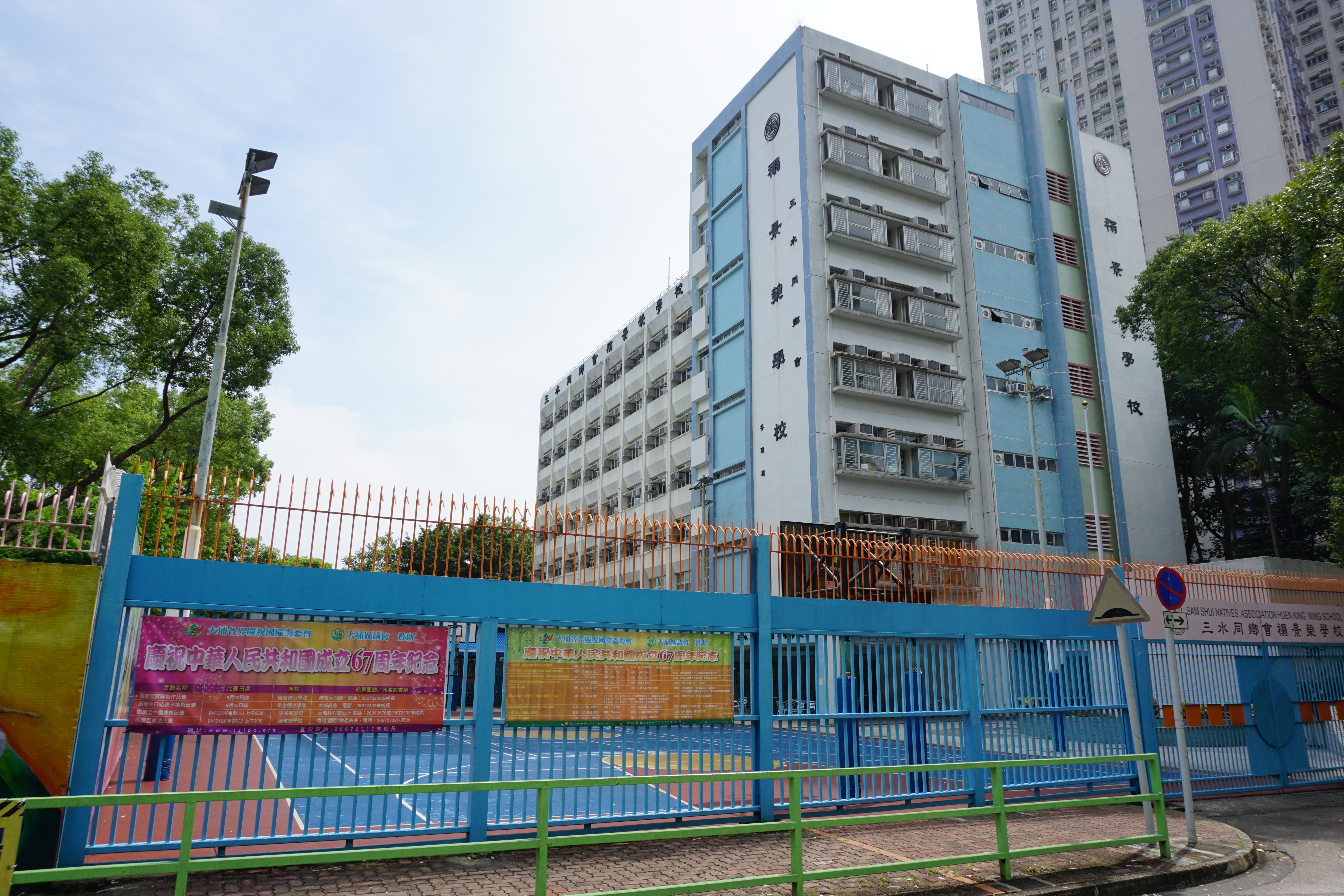 Sam Shui Natives Association Huen King Wing School in Tai Po, Hong Kong.